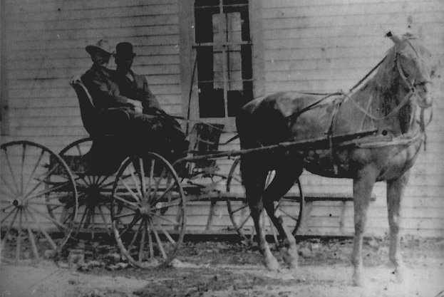 Dr. Adolphus Cole and Dr. Clyde C. Hardison riding in a carriage in Minor Hill, Tennessee, United States.